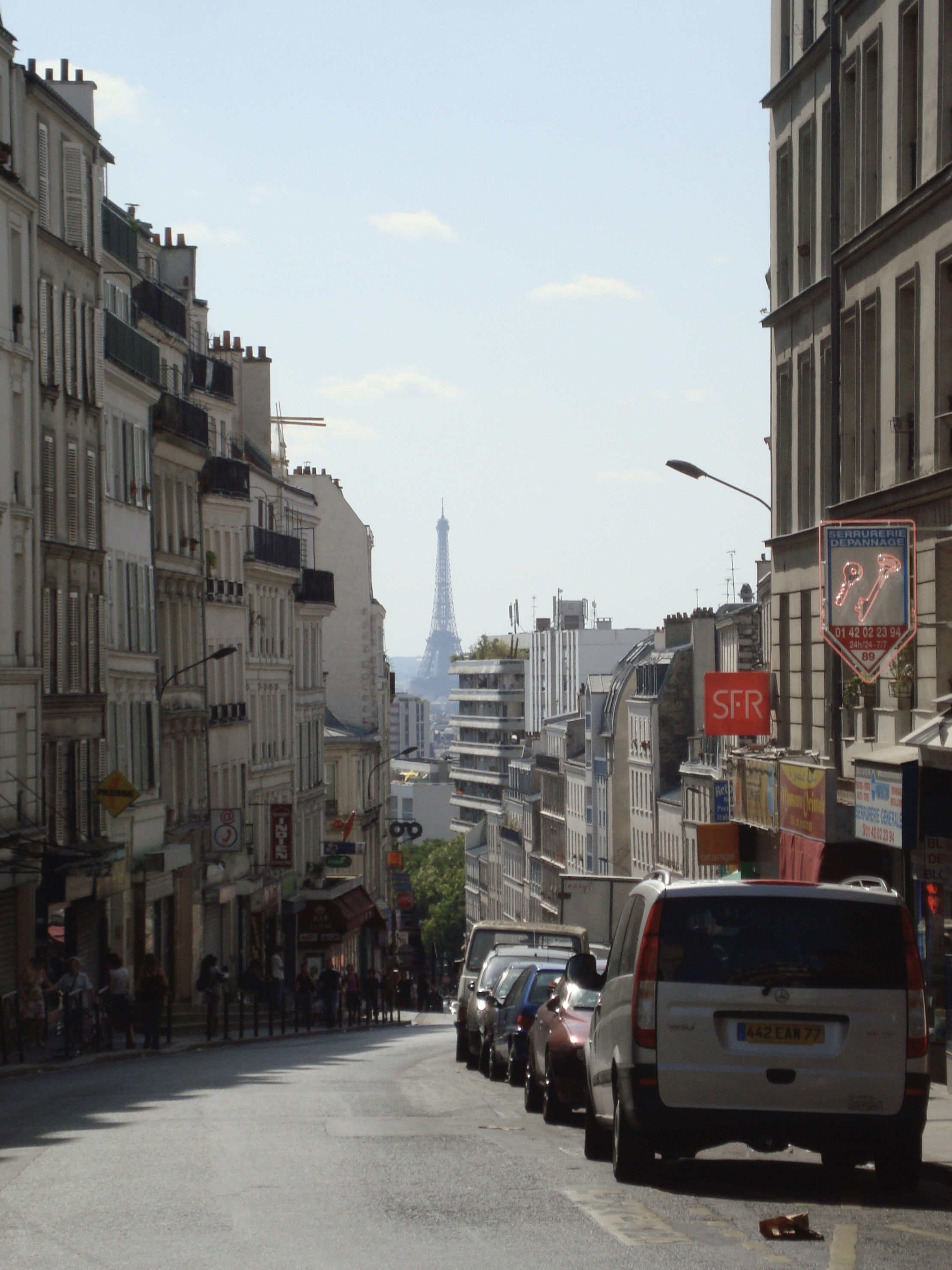 Rue de Belleville in Paris (France) in its upper part. View on the Eiffel Tower.